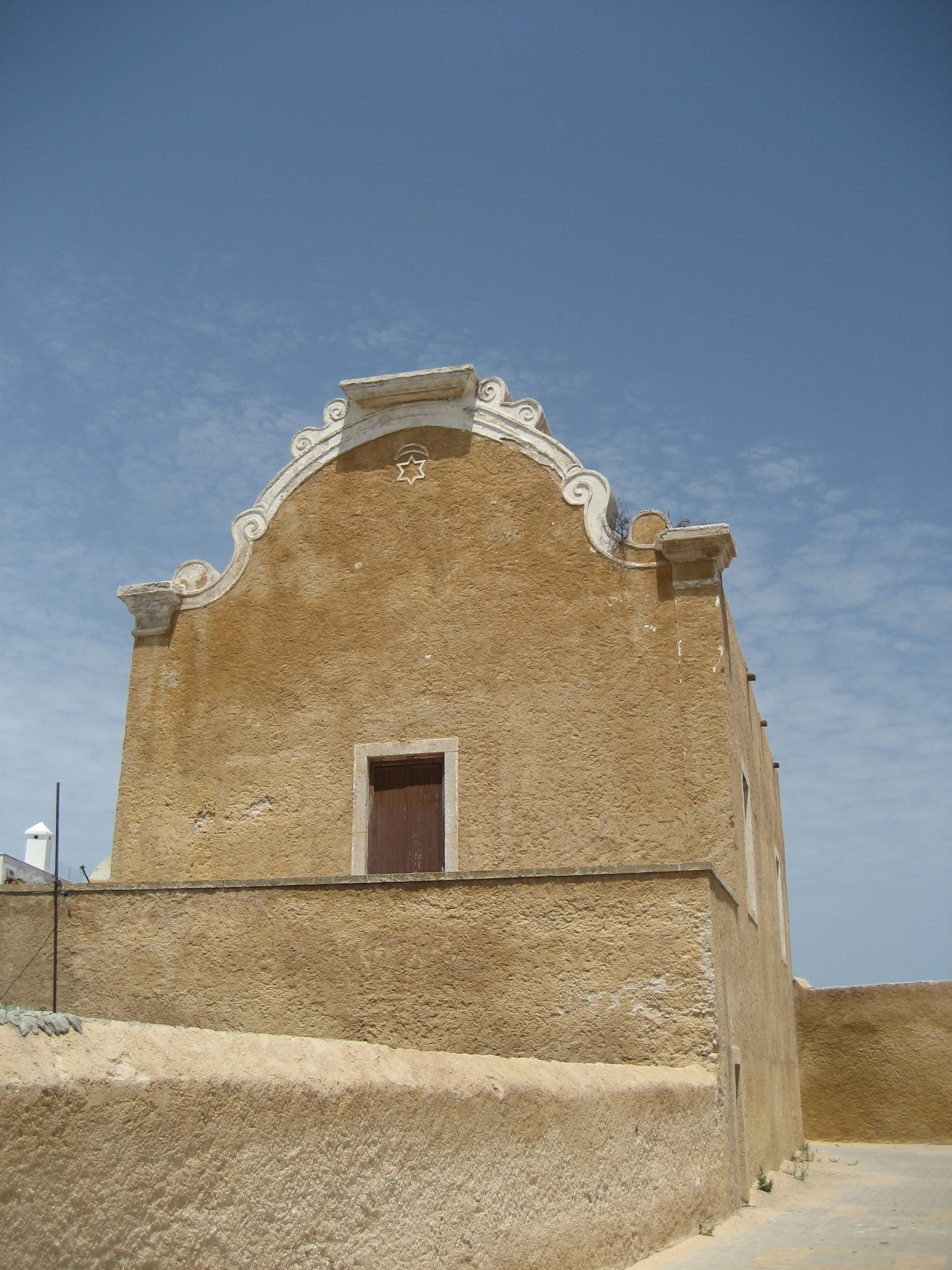 El Jadida (Morocco): bastion Saint Sebastian, former synagogue, with star of David and crescent